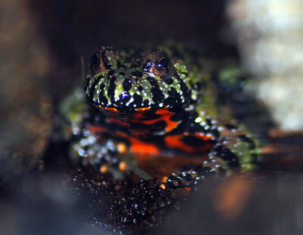 A Fire Bellied Toad - Awesome amphibians, such character.